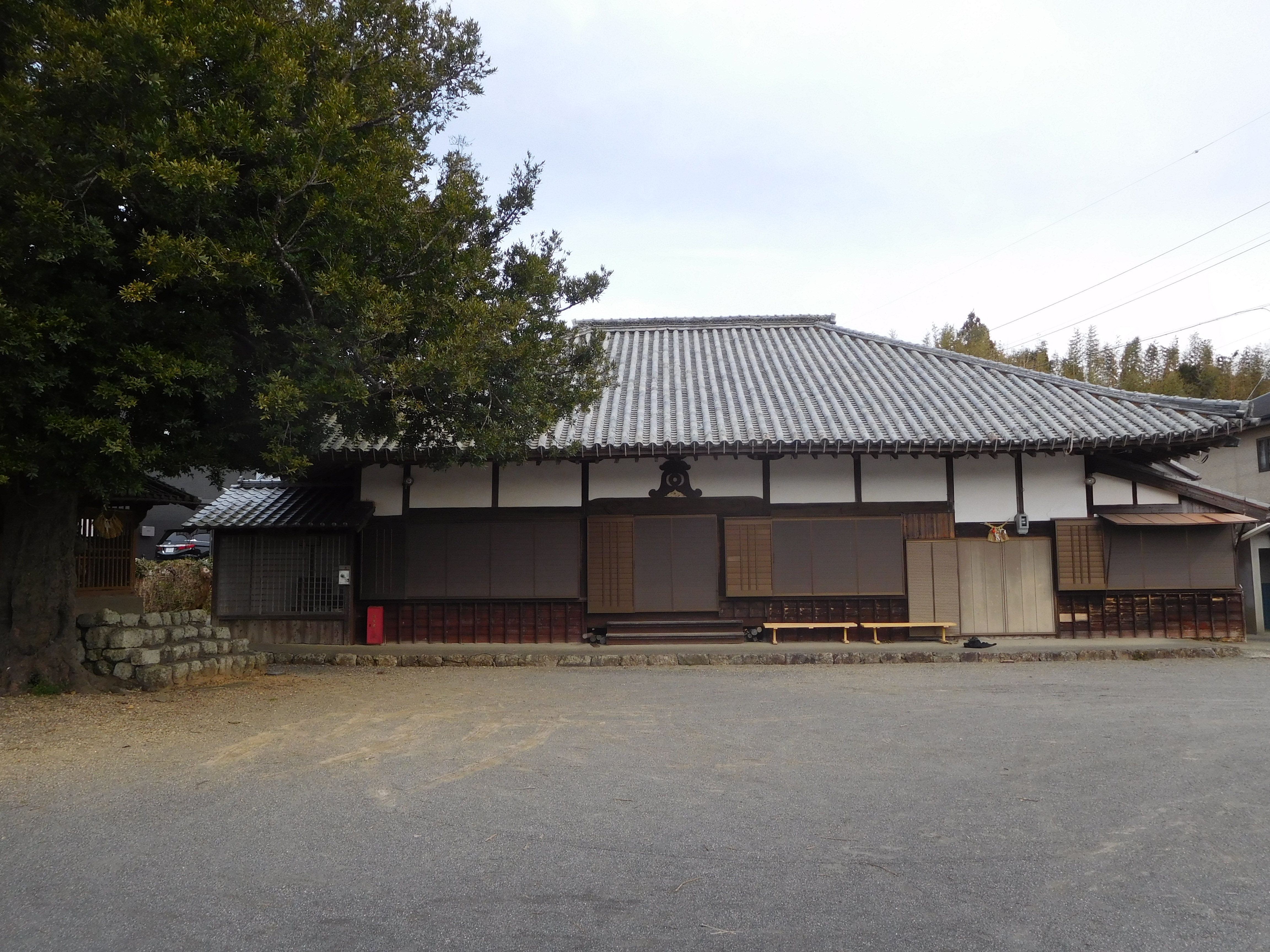 This is Gyokusen An Temple in Shima, Mie, Japan.